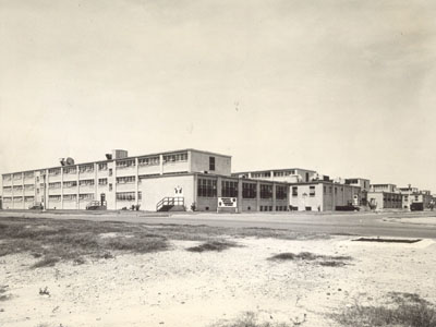 The Officer Candidate School at Ft. Benning, 1950s (?)